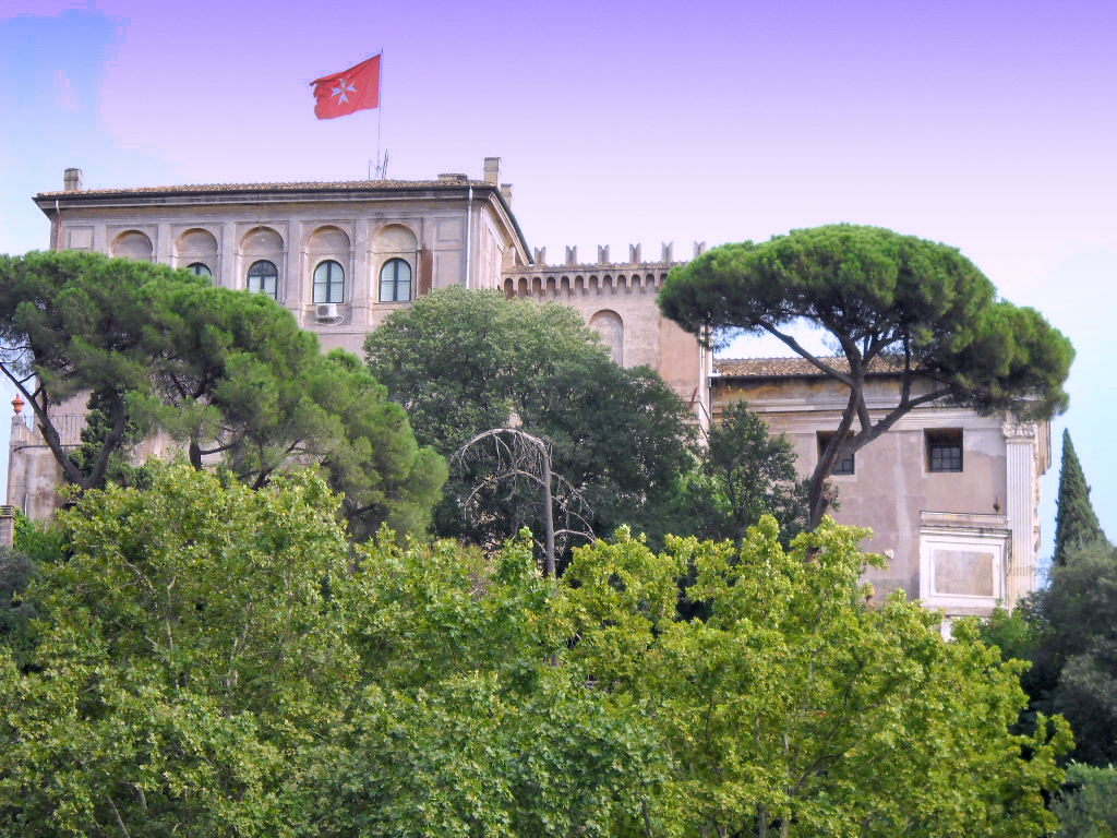 Villa Malta, home to the Grand Priory of the Sovereign Military Order of Malt on Aventine hill of Rome. It is a sovereign entity